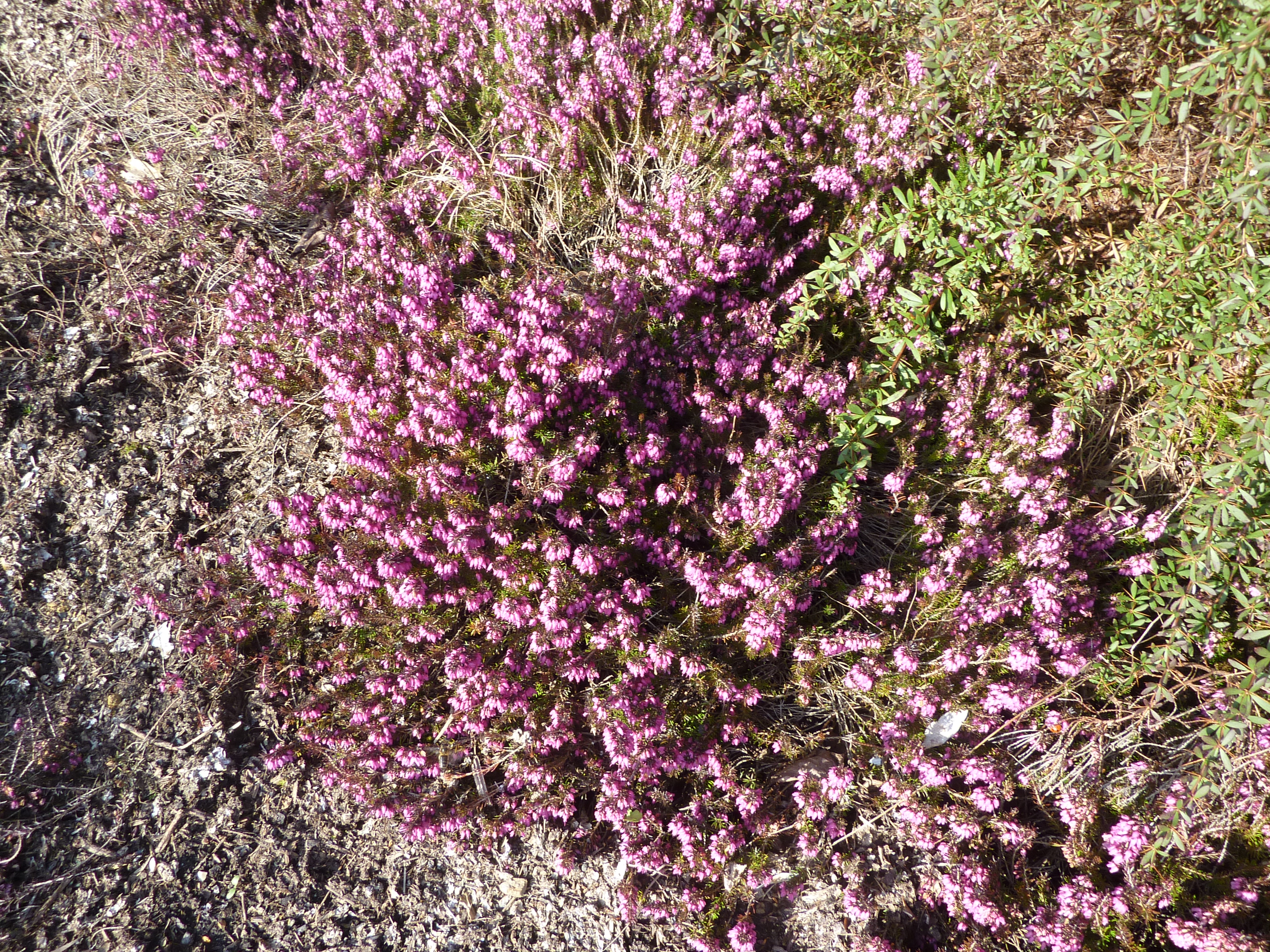 Taken in the Cambridge University Botanic Garden.